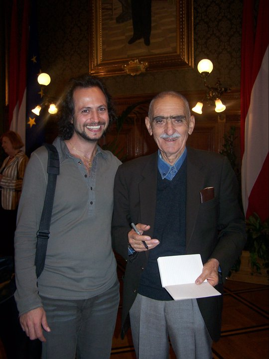 Iraj Afshar (right) with Farshid Delshad (left) attending the Confrence on Iranian Studies in Vienna 2007